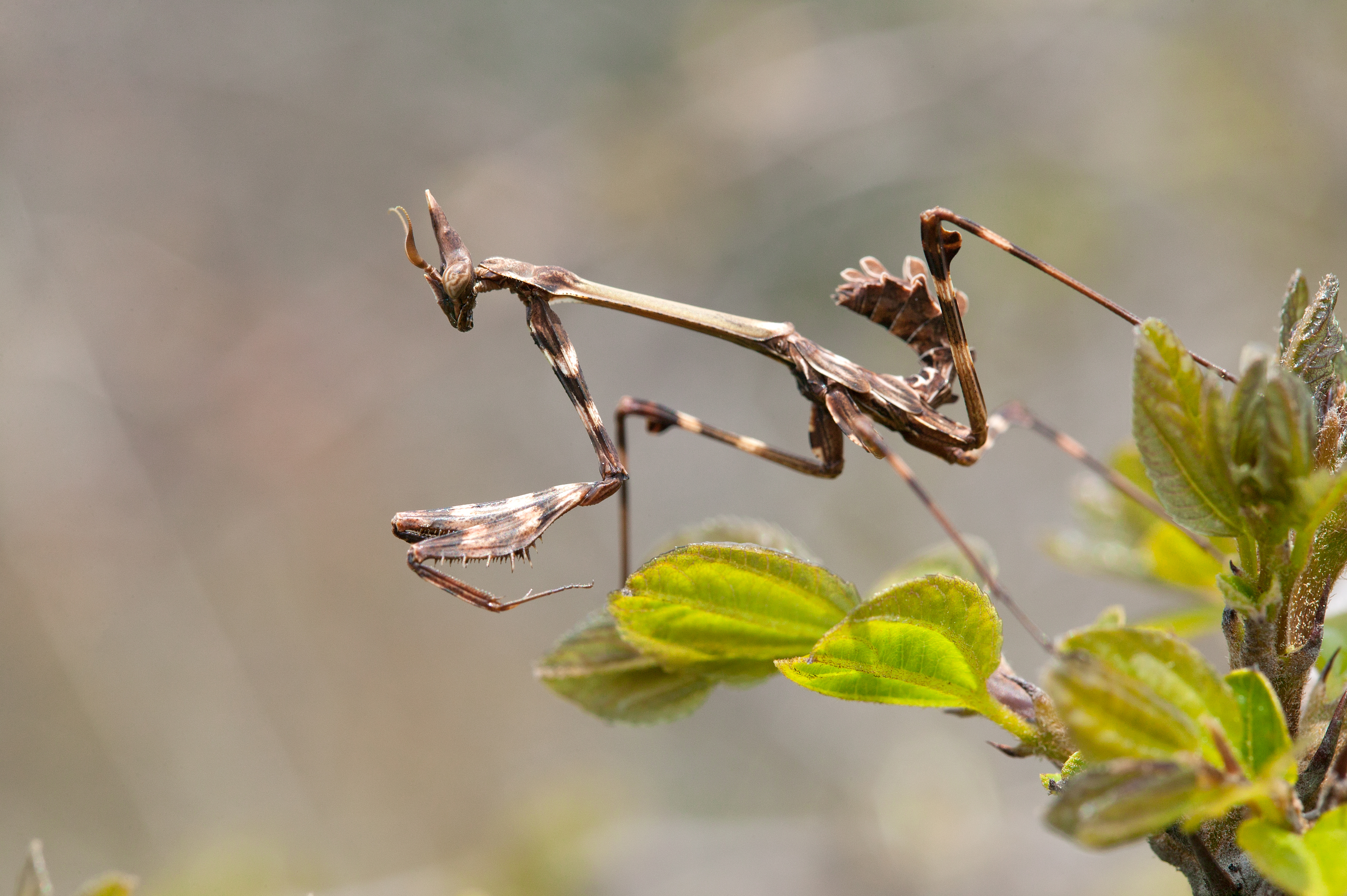 Empusa fasciata